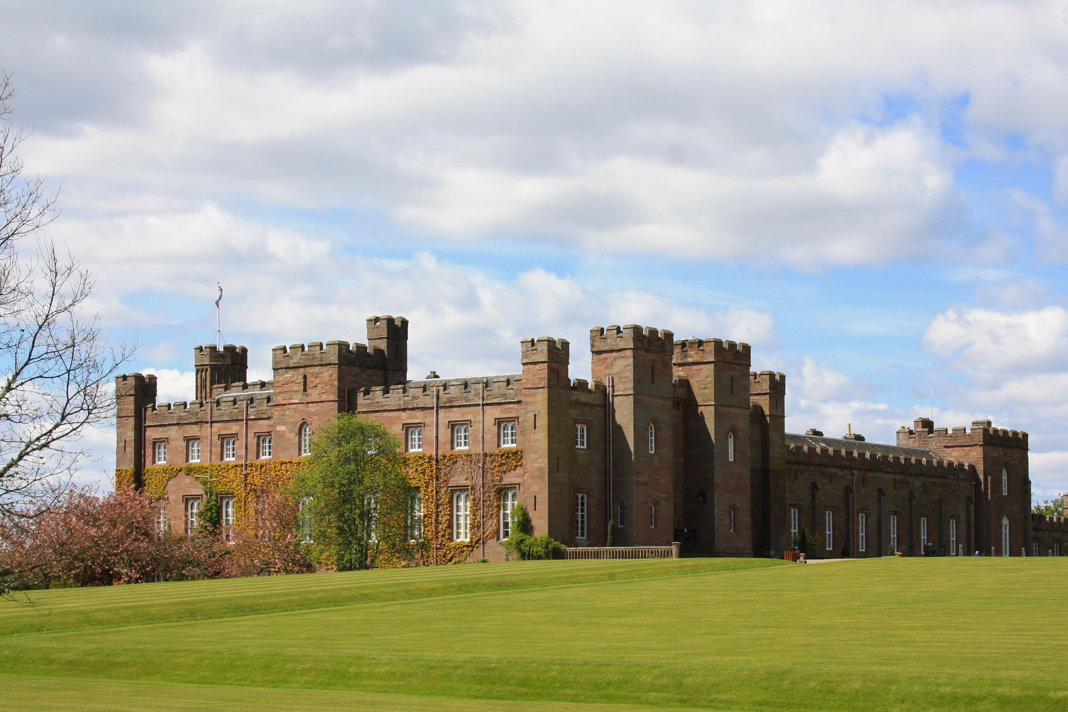 Scone Palace, Perth, Scotland